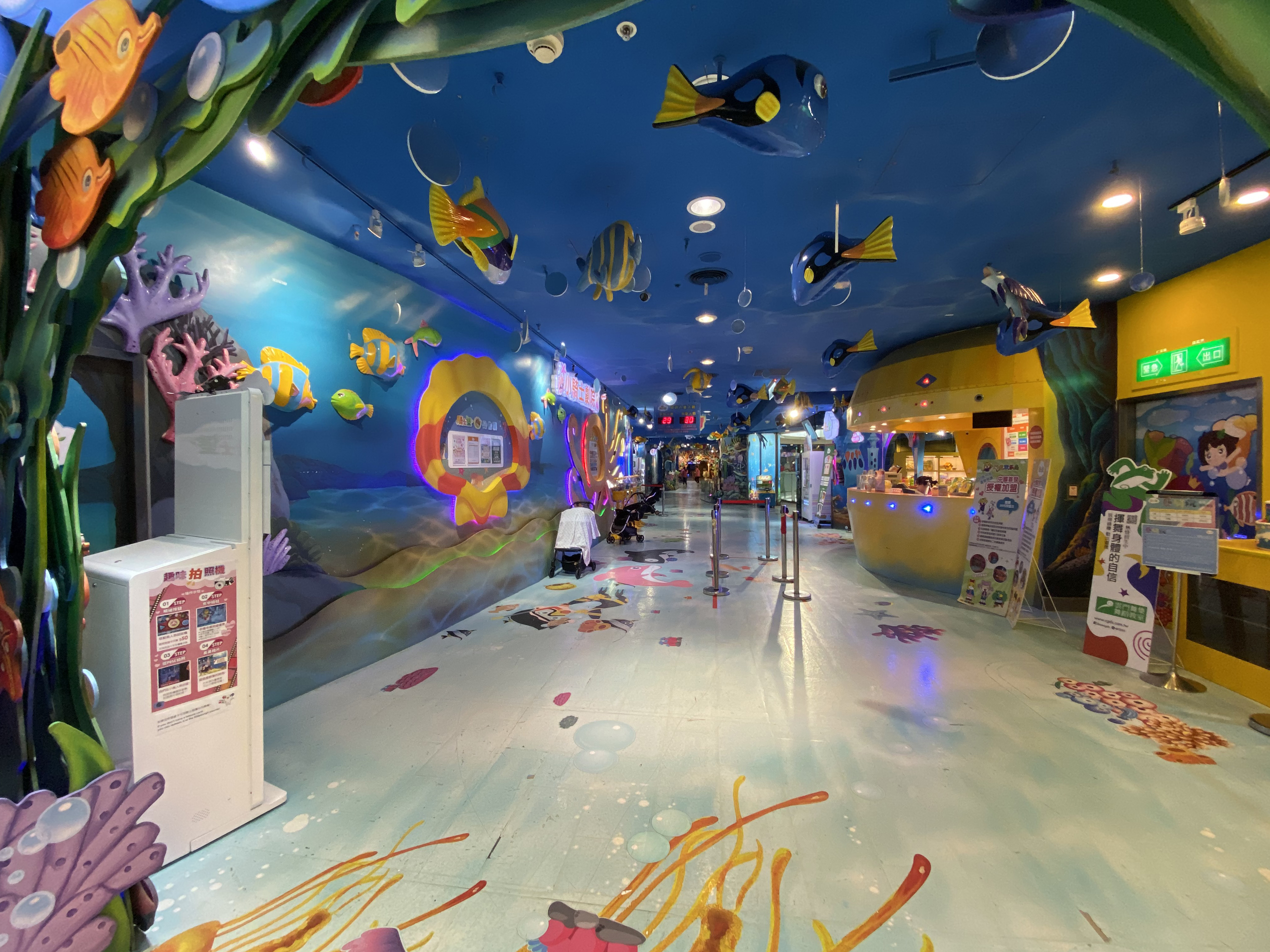 Living Mall Level 7 Kids area